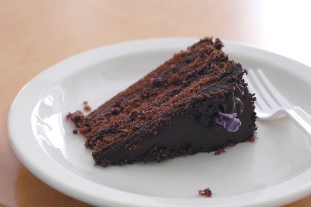 chocolate cake Credits : You have my permission to continue to use my photos you've acquired so far. These I allow for by-2.0 CC licenses. However the by-nd-2.0 license stands for all future photos you may want, and I ask that you obtain by-2.0 permission as you kindly have done in your email. Sincerely, Dennis Mojado At 02:50 2005-02-14